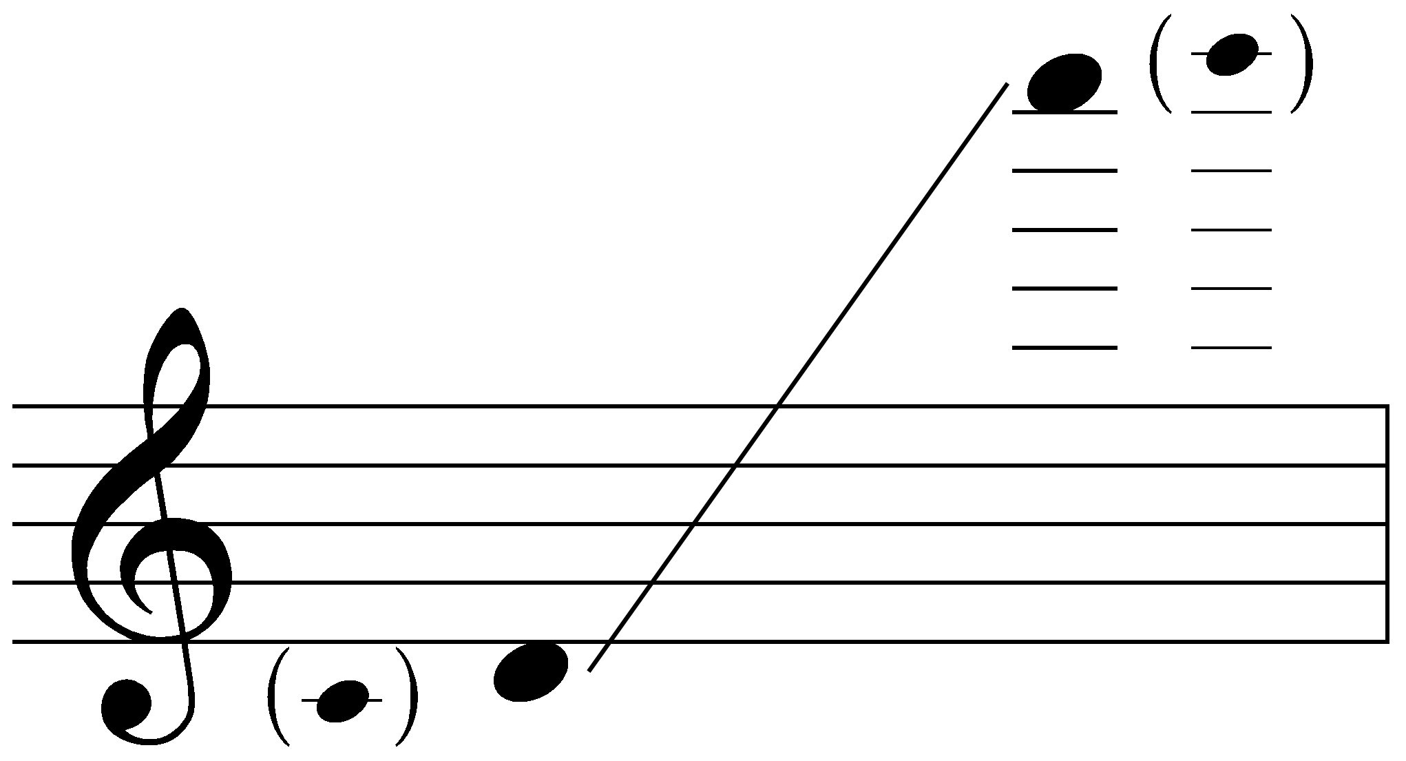 Written range of a piccolo